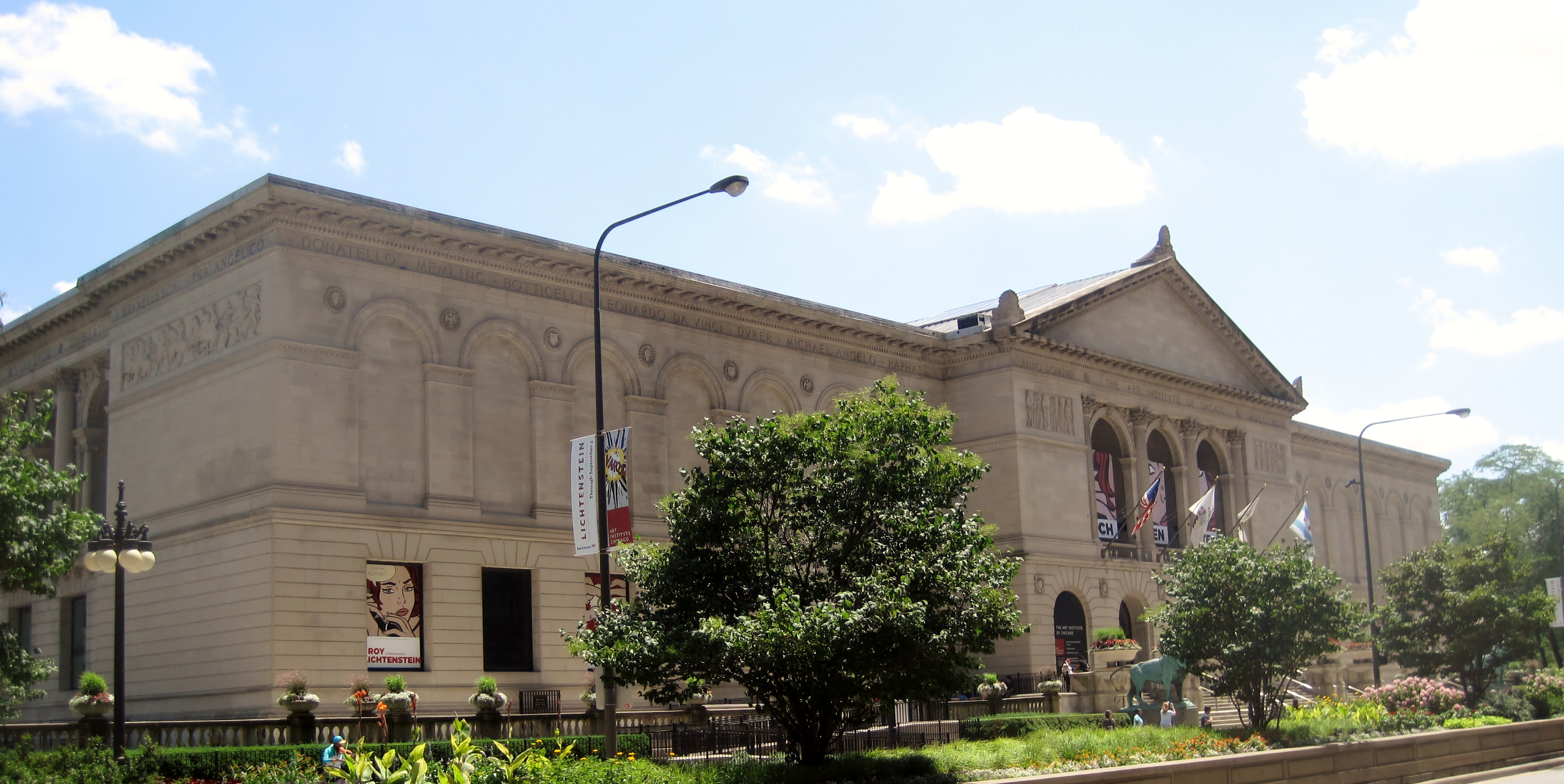 The Art Institute of Chicago in Grant Park (1893). It traces its roots back to 1866, when a group of 35 artists founded the Chicago Academy of Design. Modeled after similar European schools, the colony offered art classes. Their building was destroyed in the Great Chicago Fire and the group was unable to recover financially, falling thousands of dollars into debt. The group was abandoned, and the artists instead founded a new organization, the Chicago Academy of Fine Arts. They were able to raise enough money to purchase the assets of their previous company at auction. In 1882, the Chicago Academy of Fine Arts changed its name to the Art Institute of Chicago and bought a lot east of Michigan Avenue. The Institute was able to convince the city to aid them with construction so that it would be ready in time for the World's Columbian Exposition. After the fair, the Institute moved into the building. It has since become one of the world's most renowned art museums, particularly famous for its collection of Impressionist and American art.